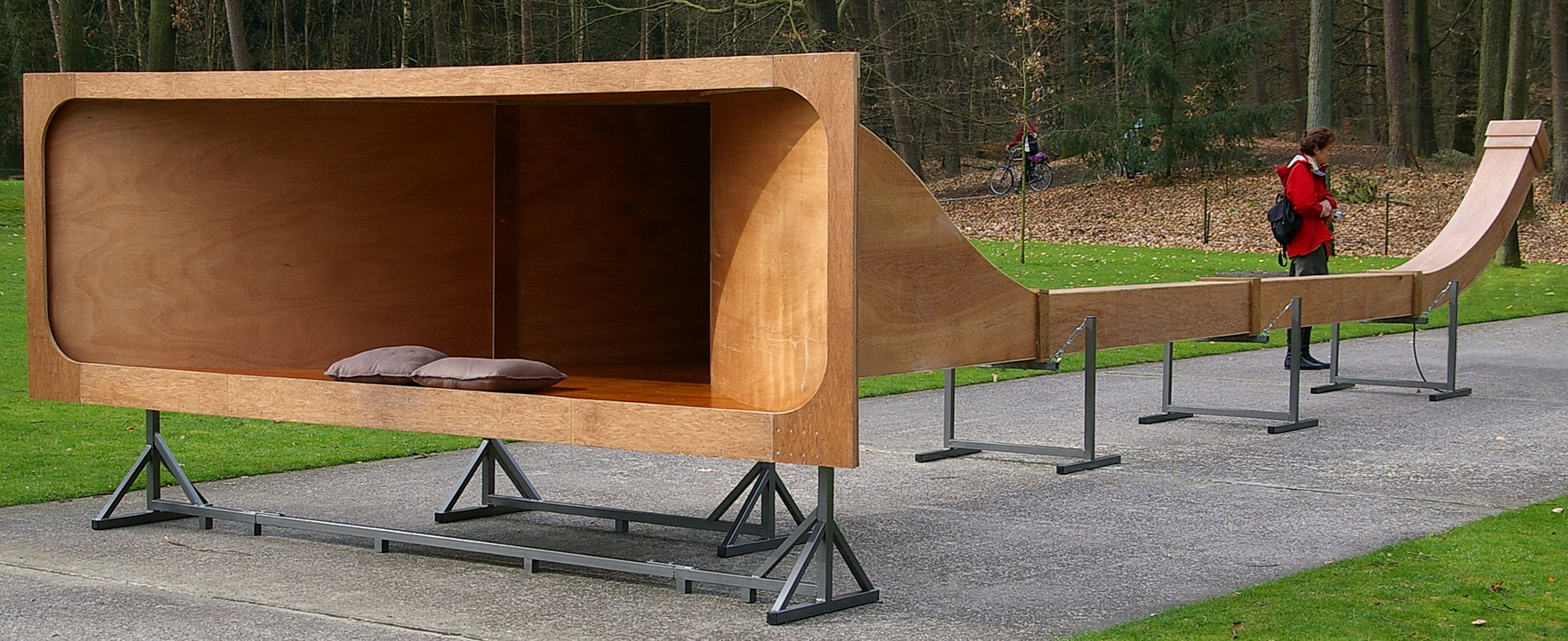 A horn woofer speaker built as sculpture Quelle: eigene Fotografie Fotograf: Johann H. Addicks Genehmigung: GFDL1.2 Datum: 15 April 2006 Sonstiges: nachbearbeitet (zwei Personen aus Bild herausretouchiert), Originaldatei auf Anfrage